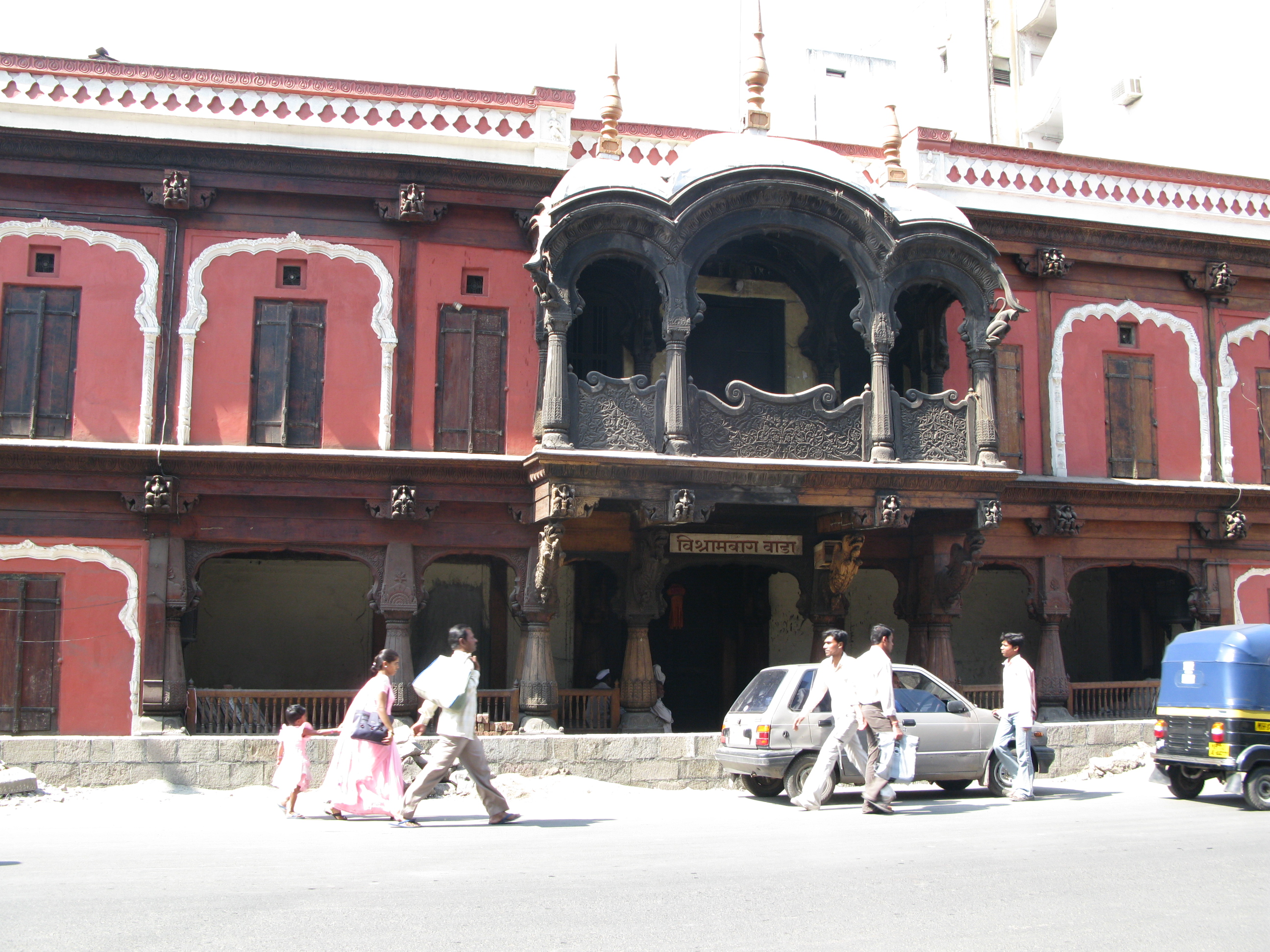 Vishrambag Wada palace, built by Bajirao Peshwa II in between 1803-1809, is a beautiful example of exquisit wooden carvery. Situated on Thorale Bajirao Road in the down town Pune, it currently houses a Government Library and a post Office. Recently in February, 2008 it is renovated to house a museum of Maratha History as well.